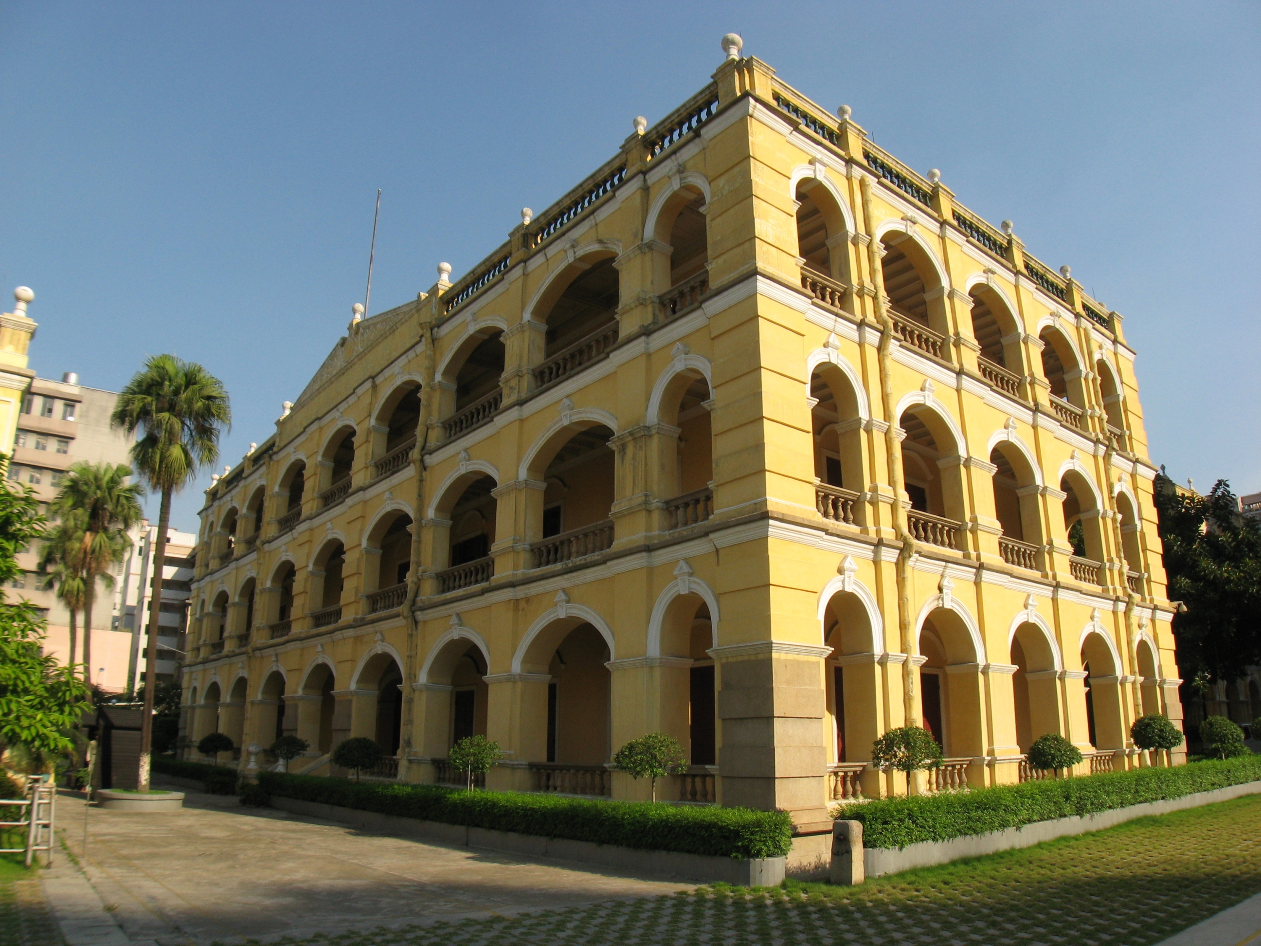 Generalissimo Sun Yat-sen's Mansion